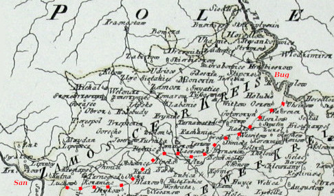 Zamość County of Austrian Galicia in the year 1791